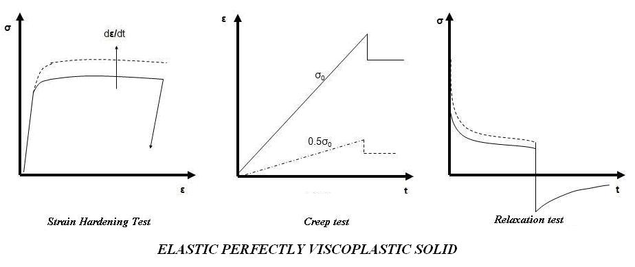 This was performed using Power Point Presentation.